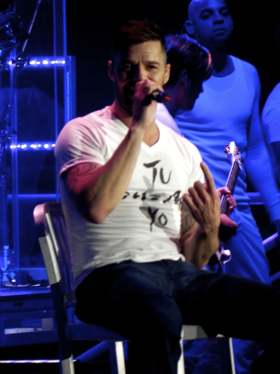 Ricky Martin performing in Chicago on April 19, 2011